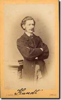 August Kundt (1839–1894), a German physicist.